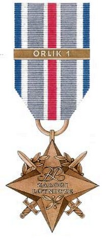 Air Crew Star – Poland – obverse with "ORLIK 1" clasp.